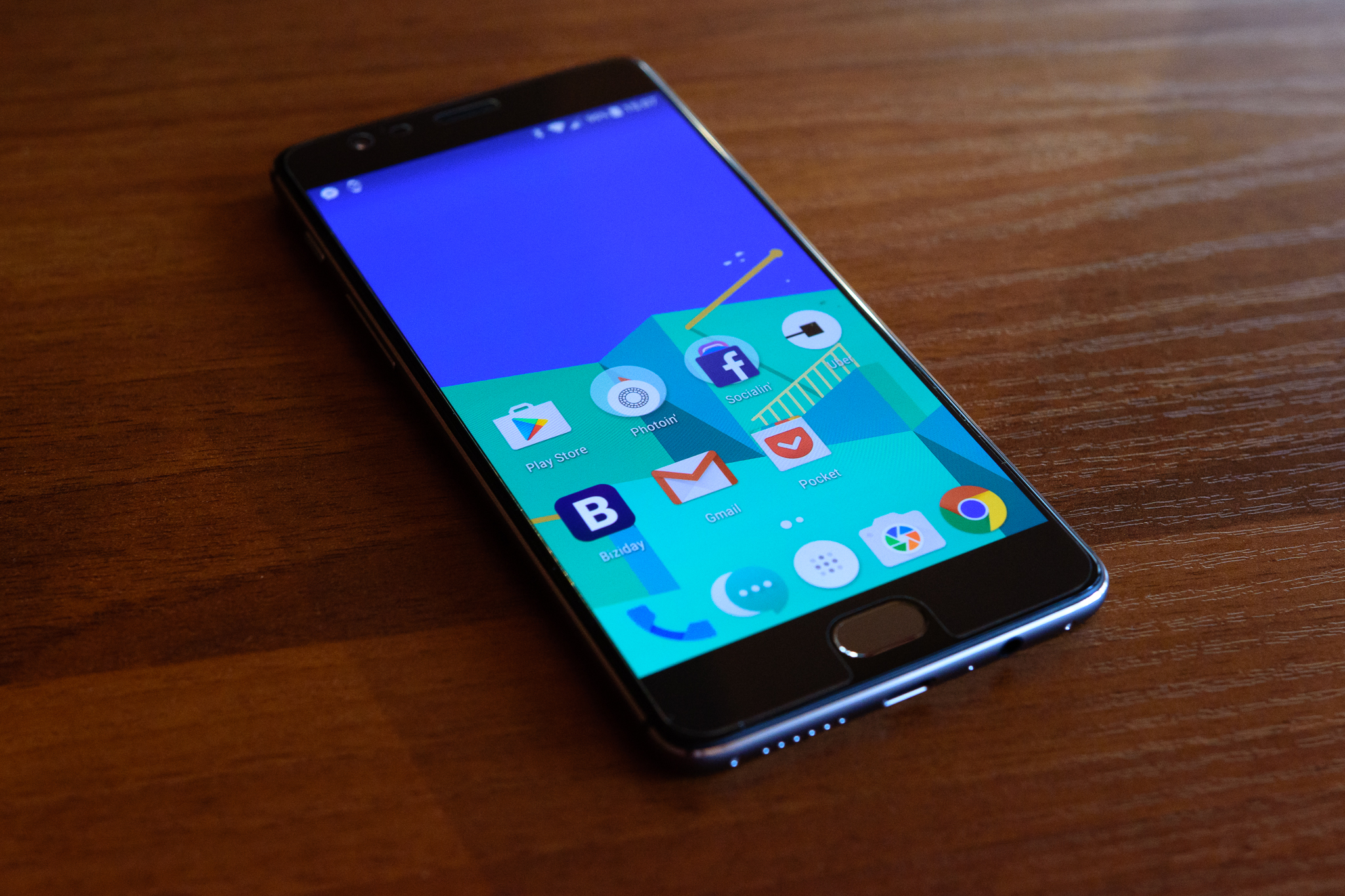 OnePlus 3T (”Gunmetal” color)